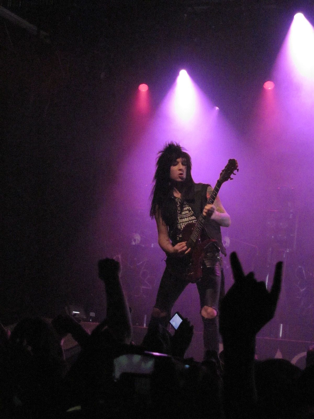 Concert of the band Black Veil Brides on January 25, 2013 in New York. In the picture: Jake Pitts